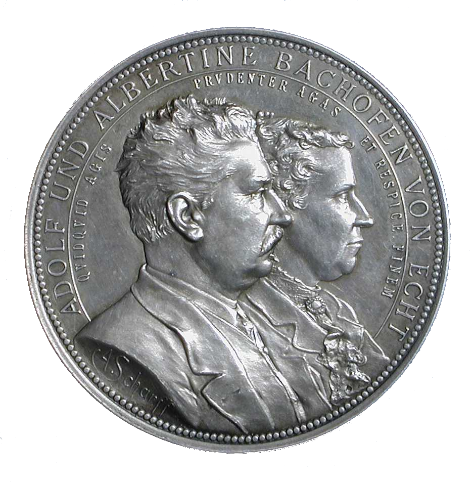 Latin inscription: ADOLF UND ALBERTINE BACHOFEN VON ECHT QVIDQVID AGIS PRVDENTER AGAS ET RESPICE FINEM. Commemoration medal created for the silver anniversary between Baron Karl Adolf Bachofen von Echt and his wife Albertine. The date is May 16, 1884. Medal is made out of silver, 50mm.